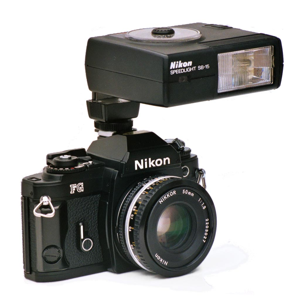 Nikon FG (black) with Nikkor AI-S 50 mm f/1.8 (late) lens and Nikon Speedlight SB-15 electronic flash